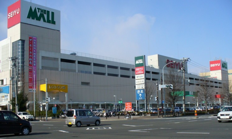 The Mall Sendai Nagamachi in Sendai, Japan